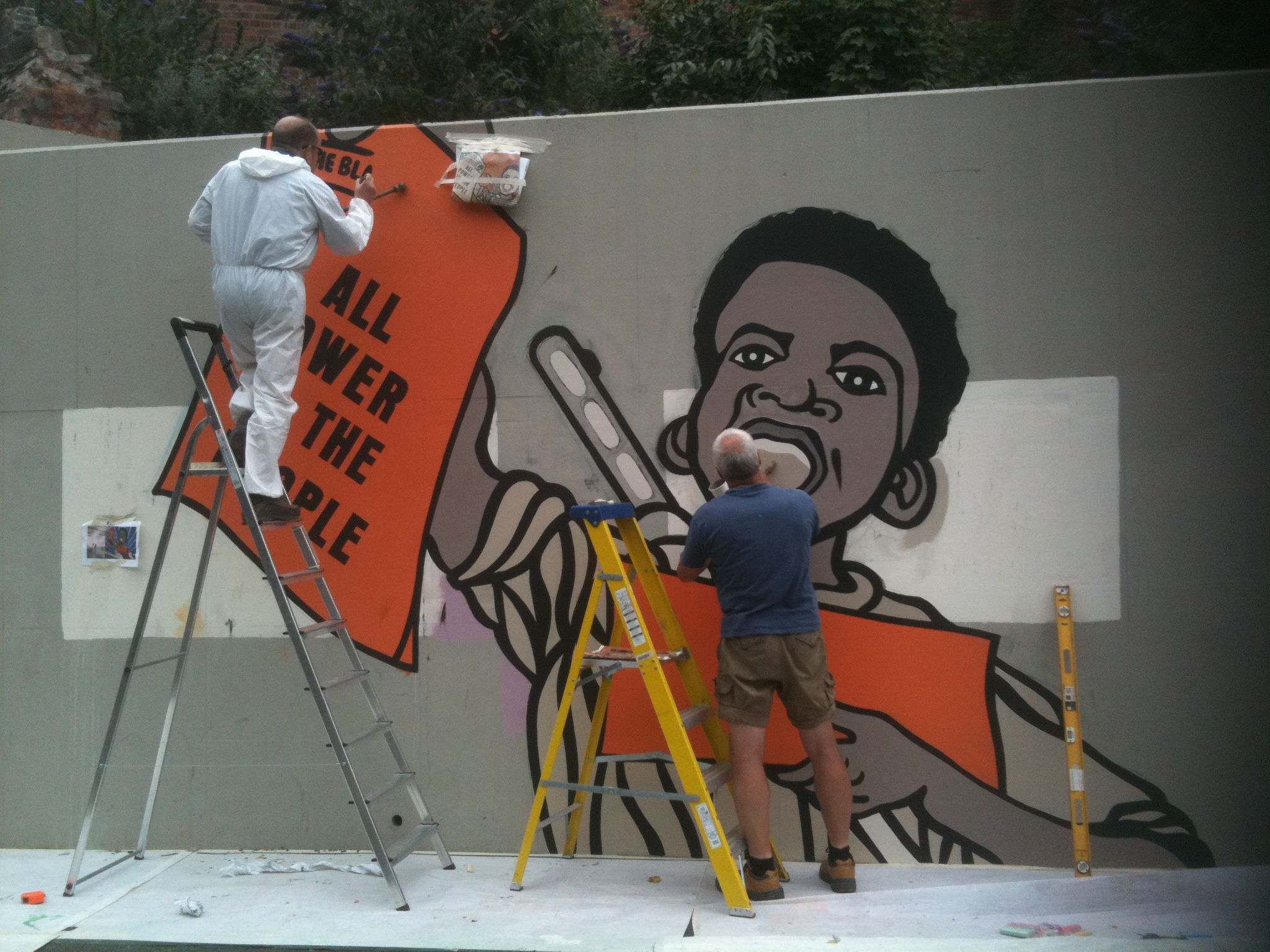 Emory Douglas mural painted in Nottingham as part of Jean Genet exhibition at Nottingham Contemporary. Summer 2011